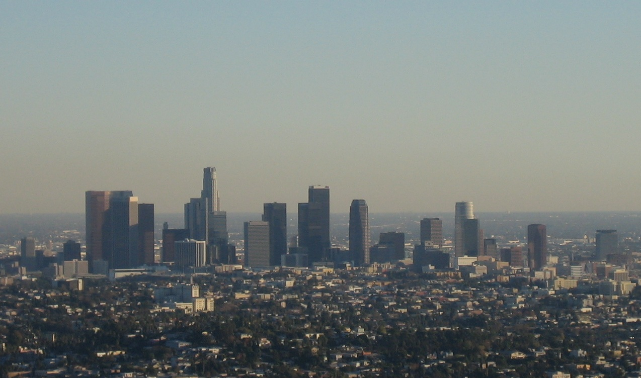 Downtown Los Angeles, California skyline. (view from Griffith Observatory)